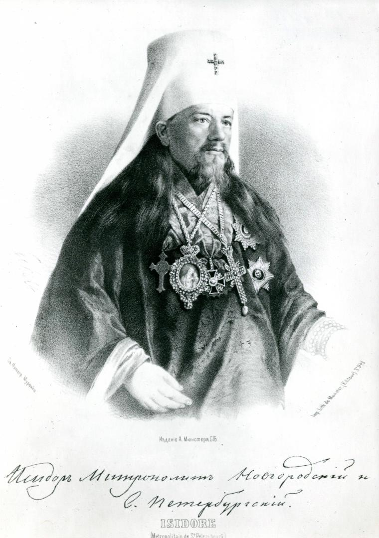 Metropolitan of Novgorod and St. Petersburg Isidore